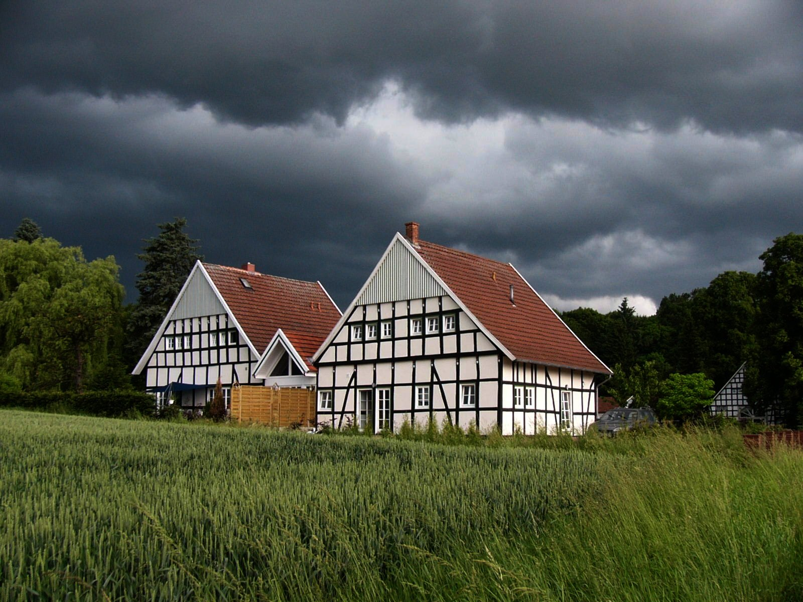 Two refurbished houses of type "Kotten" on their original site in Hüllhorst, Minden-Lübbecke, North Rhine-Westphalia, Germany in a storm; at right in the background is a large timbered house belonging to the large farm in Ostwestfalen of which the Kotten were part of.